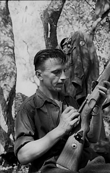 Battle of Garfagnana